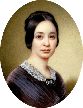 Miniature portrait of Varina Davis, painted by John Wood Dodge in 1849, four years after her marriage with Jefferson Davis.